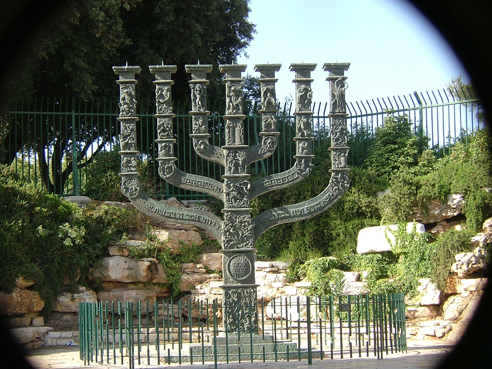 Knesset Menorah in Jerusalem.